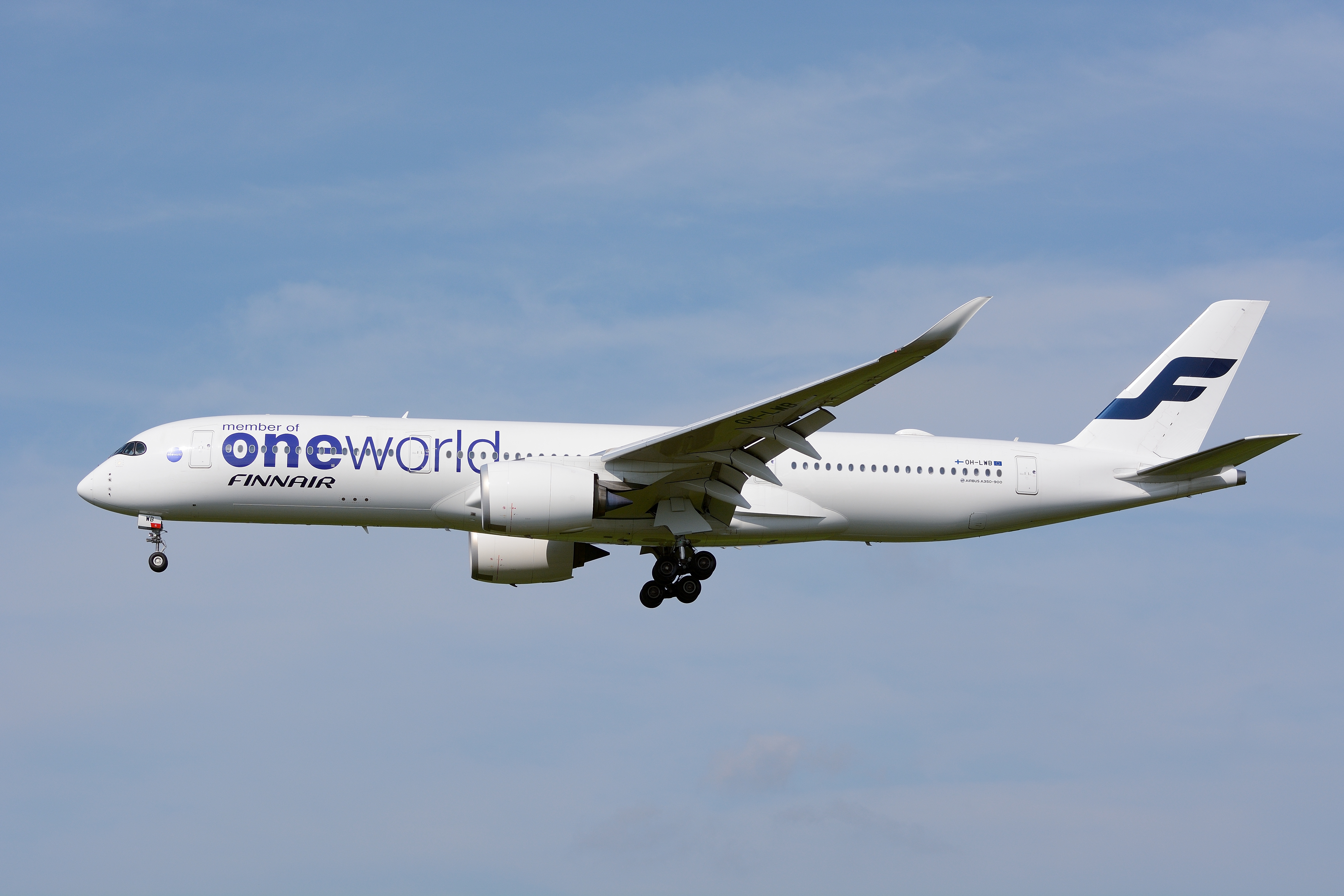 Finnair, Airbus A350-900 OH-LWB 'One World' NRT